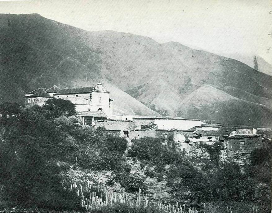 Santísima Trinidad Church (Current National Pantheon)